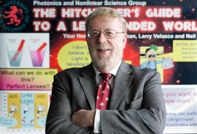 While a range of ingenious man-made materials, called metamaterials, bring us ever closer to realising the possibility of cloaking objects from visible light, research from Imperial College London and the University of Salford is now taking invisibility into the fourth dimension - time - creating the groundbreaking potential to hide whole events.